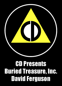 image of CD Presents logo. CD Presents was record label founded and managed by David Ferguson (impresario)